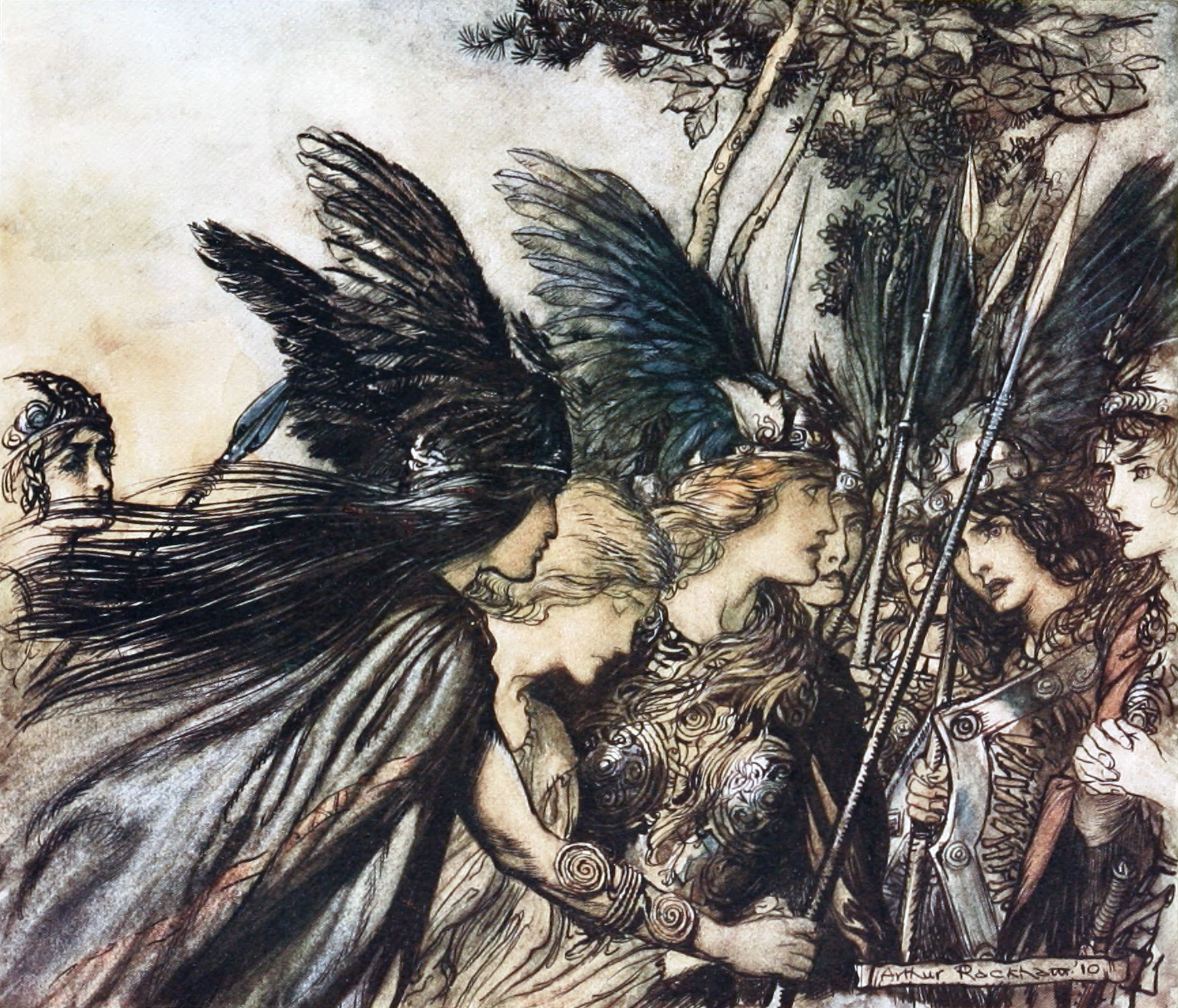 "I flee for the first time / And am pursued: / Warfather follows close / ... / He nears, he nears, in fury! / Save this woman! / Sisters, your help!"